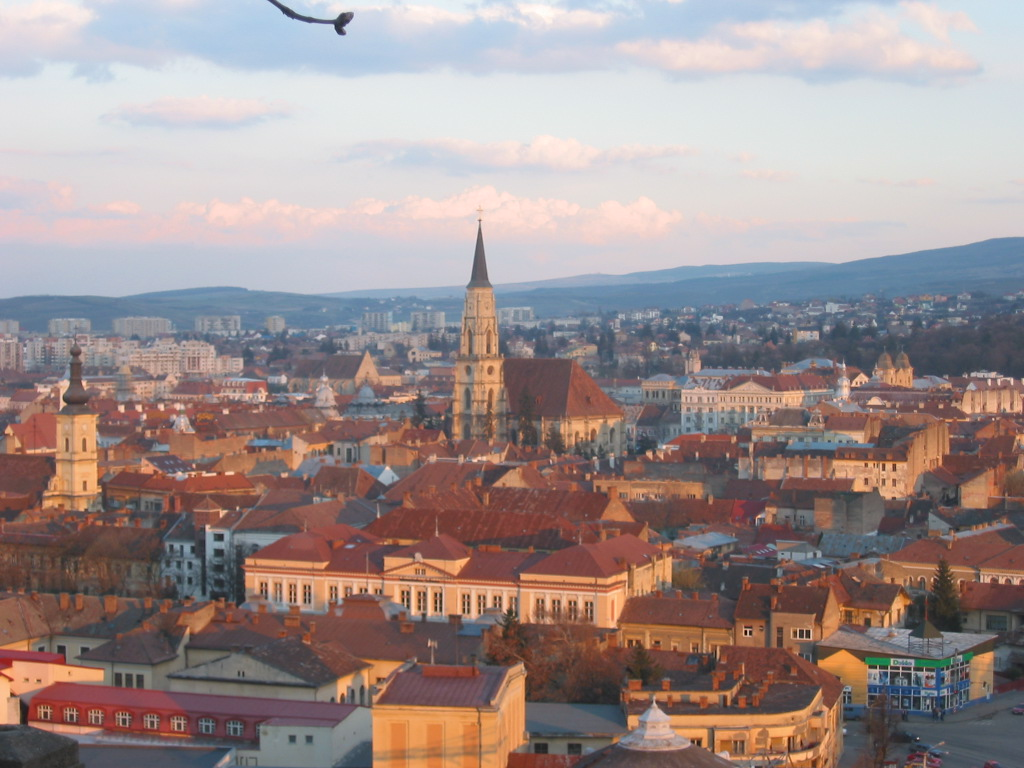 A panoramic view of Cluj-Napoca.